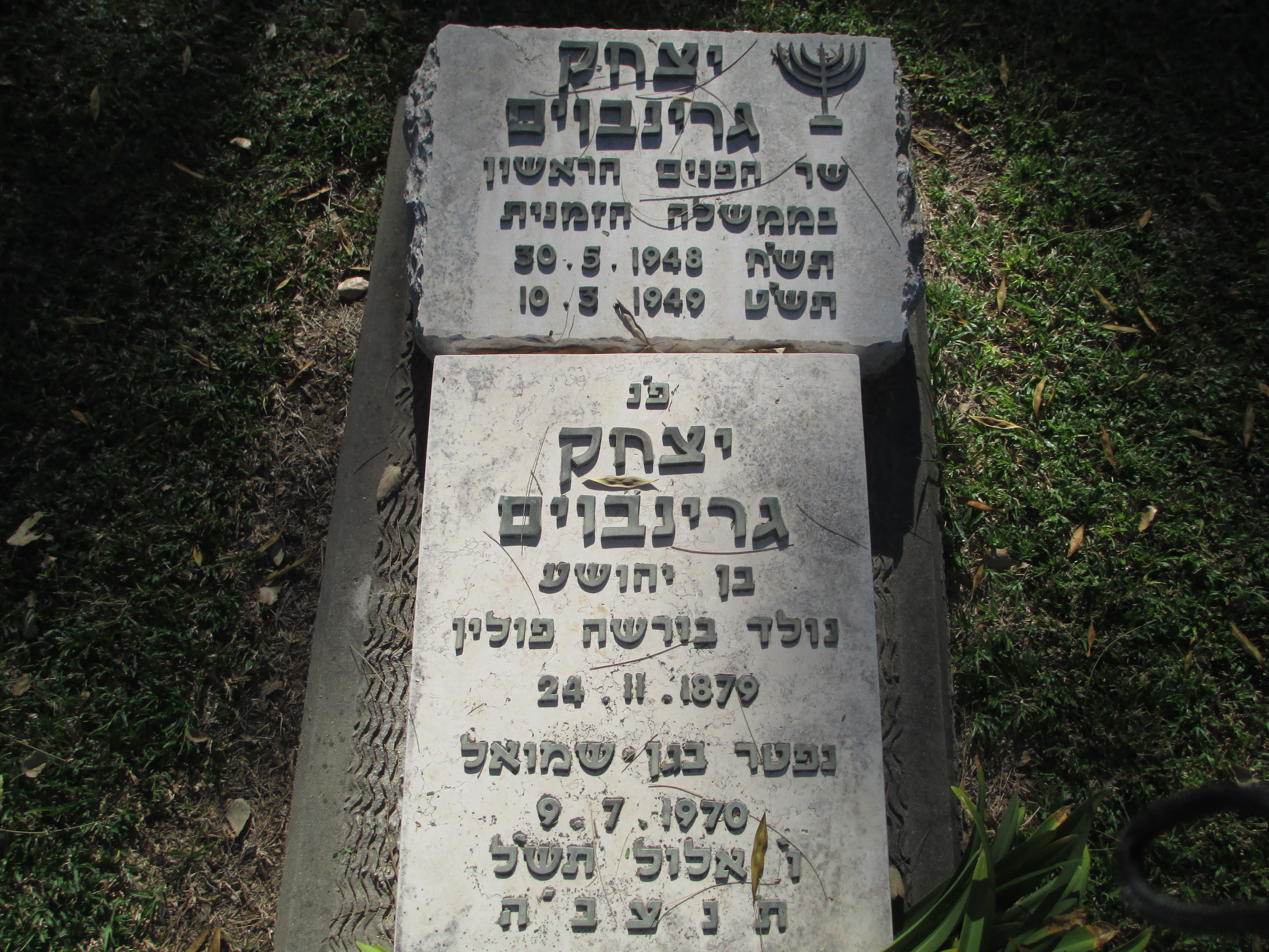 Kibbutz Gan Shmuel